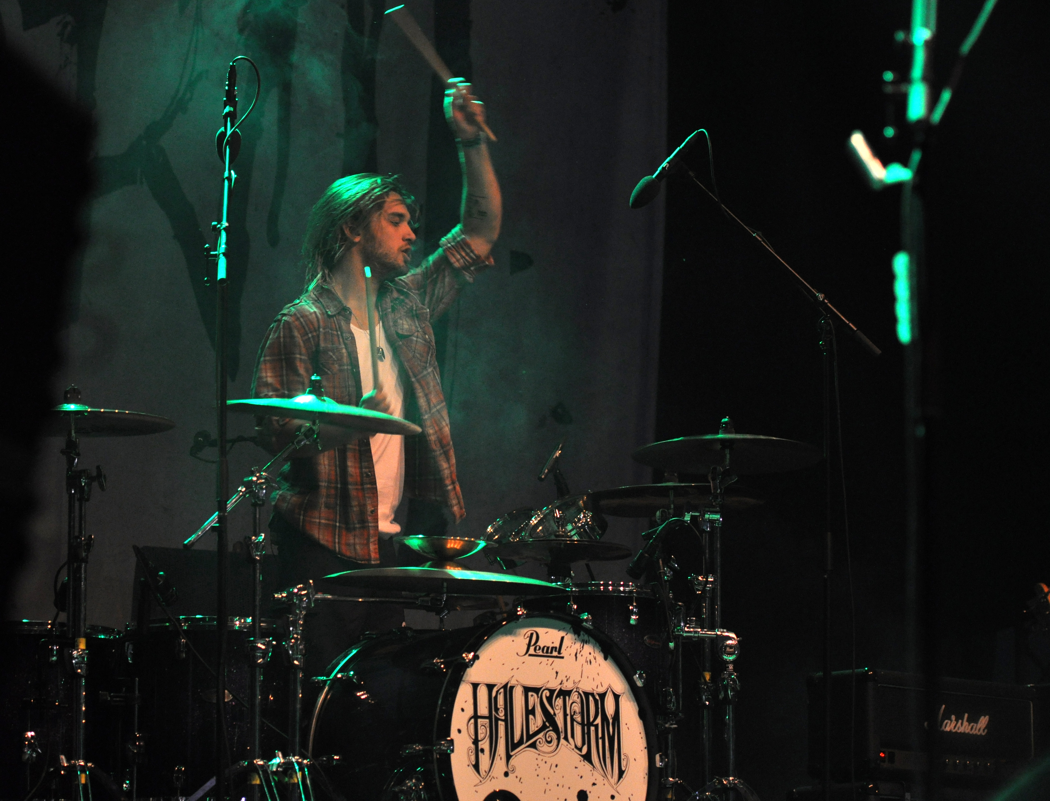 Halestorm at Paaspop 2014